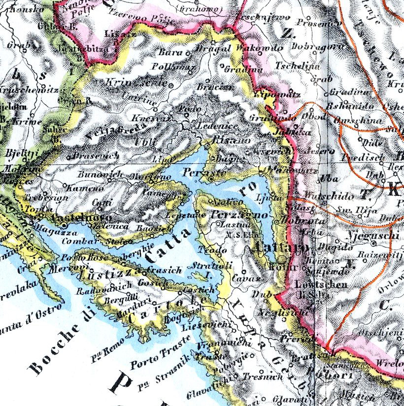 Map of the Bay of Kotor in 1862, extracted from Das Fürstentum Montenegro im Jahre 1862